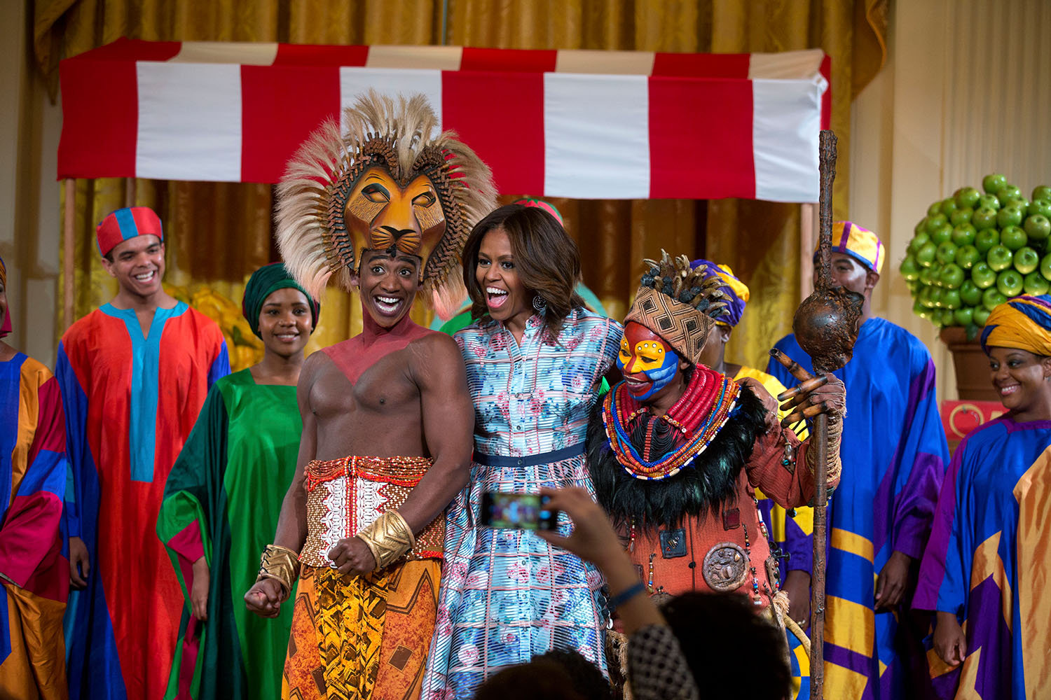 First Lady Michelle Obama joins the cast of Disney's "The Lion King" onstage after their performance at the Kids' State Dinner in the East Room of the White House, July 18, 2014. (Official White House Photo by Lawrence Jackson)